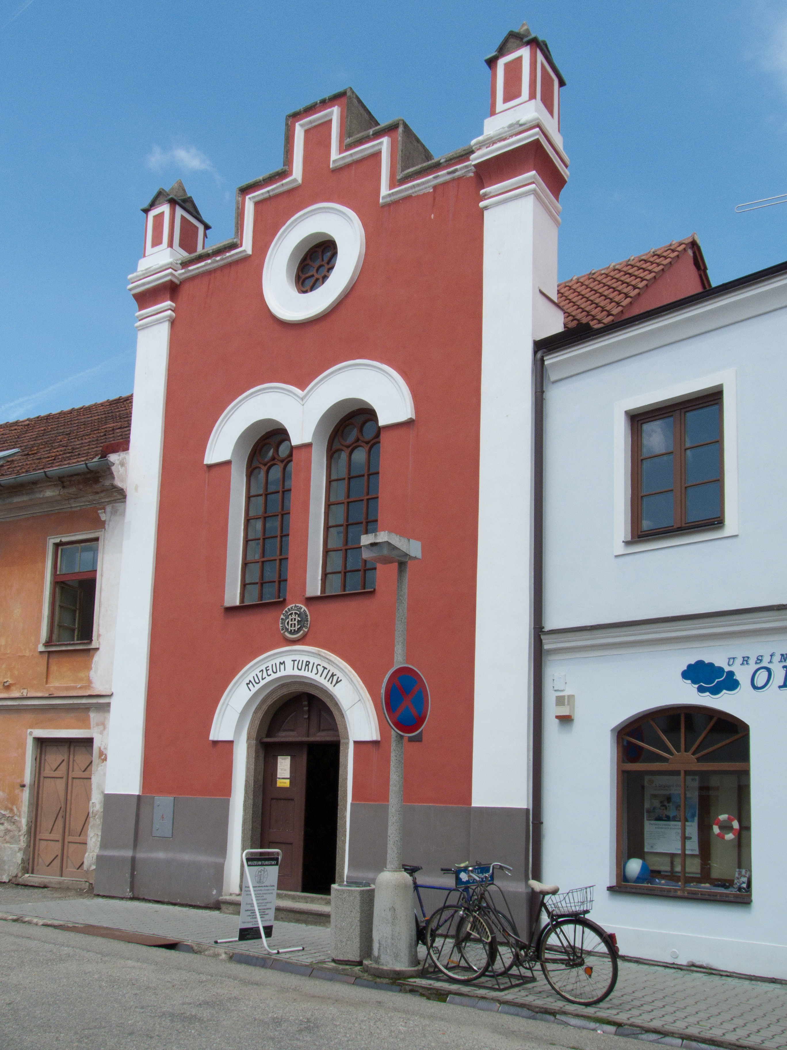 Former synagogue in the town of Bechyně, Tábor District, Czech Republic, at present the Tourism Museum (2011).